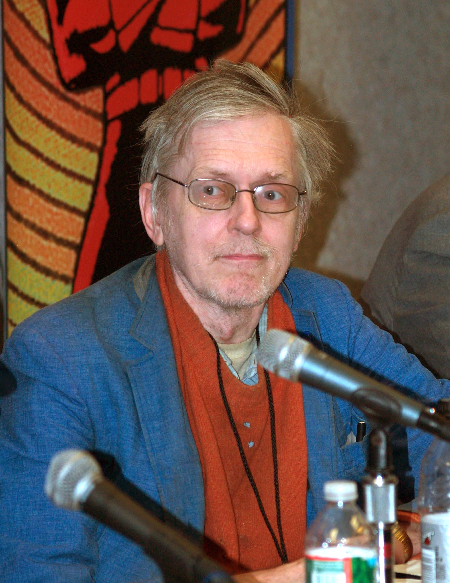 Comics critic and historian Peter Sanderson on a "Marvel in the 80s" panel at the Meadowlands Exposition Center in Secaucus, New Jersey on April 11, 2015, Day 1 of the 2015 East Coast Comicon. This photo was created by Luigi Novi. It is not in the public domain, and use of this file outside of the licensing terms is a copyright violation.